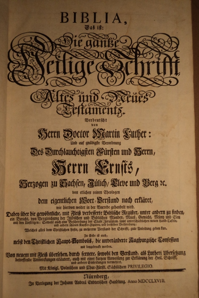 First page of the "Kurfürstenbibel" from 1768